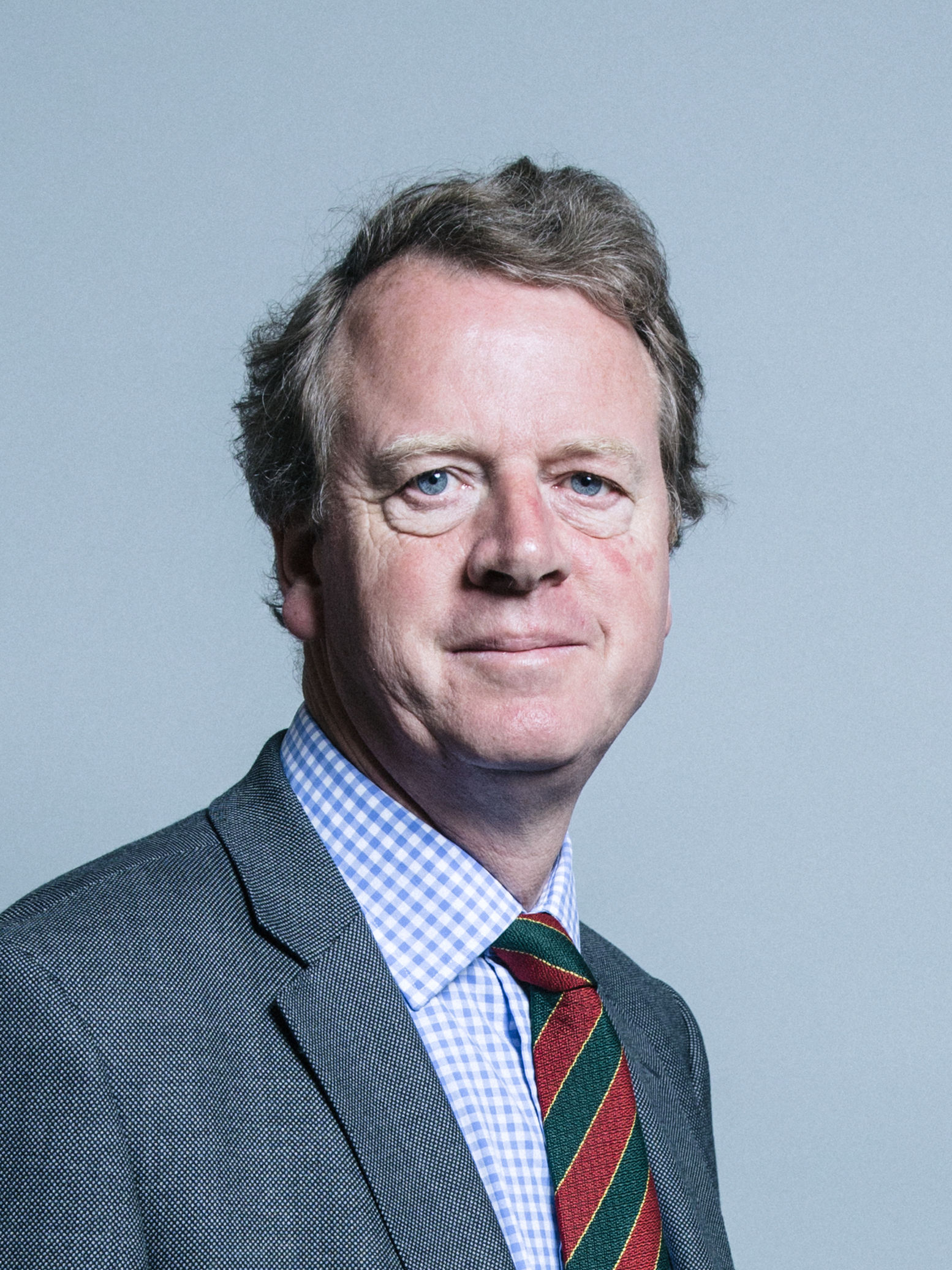 Official portrait of Mr Alister Jack